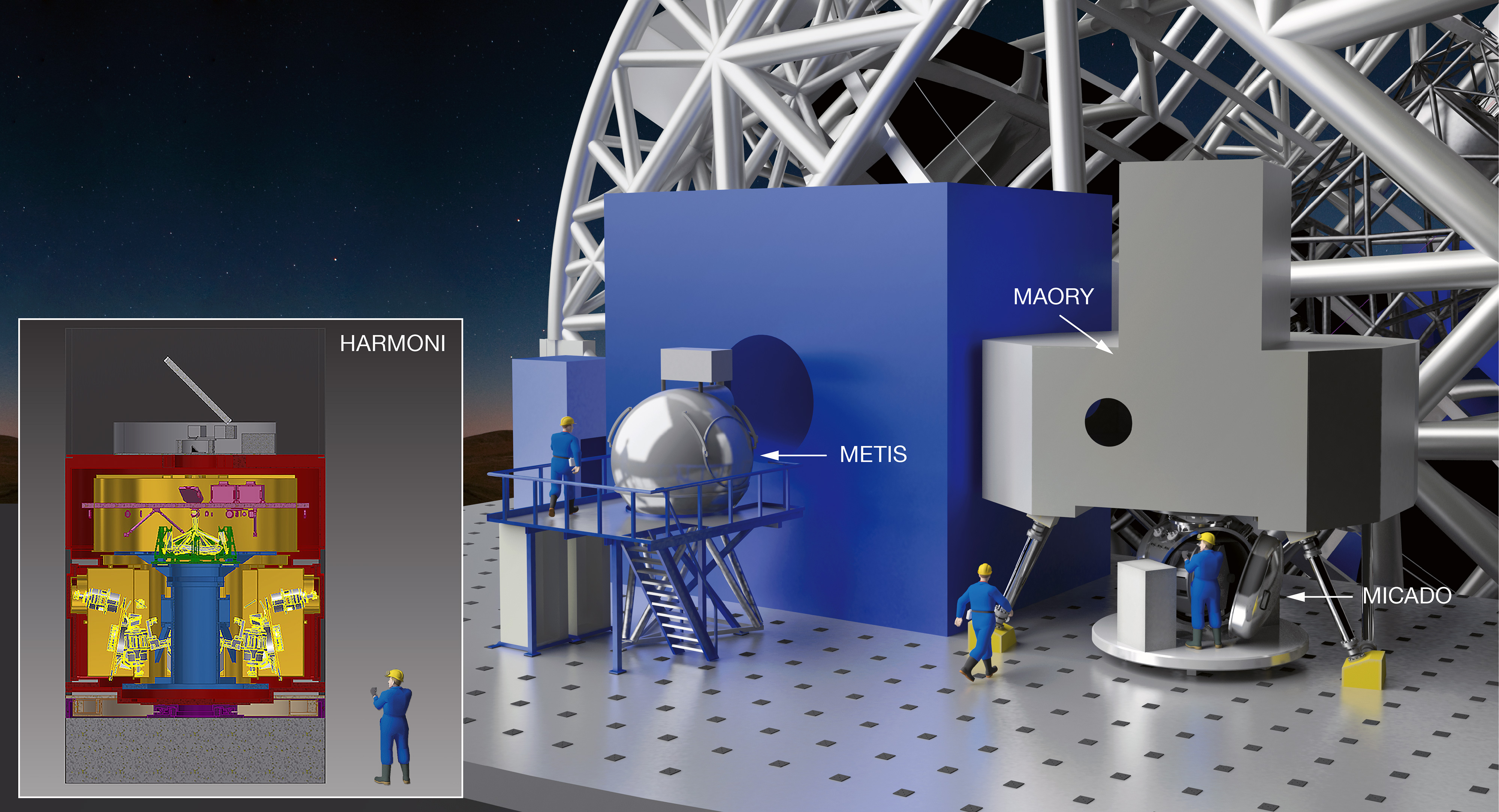 The ESO Council has authorised the Director General to sign the contracts for the first set of instruments for the E-ELT. These huge and innovative tools to analyse the light collected by the giant telescope will allow the E-ELT to address a wide range of astronomical questions soon after its completion. This instrumentation package comprises a near-infrared imager with spectroscopic capability (MICADO), a multi-conjugate adaptive optics unit (MAORY), which will feed MICADO (and possibly additional future instruments); an integral field spectrograph (HARMONI), along with development of its laser tomography adaptive optics system to preliminary design review level; and a mid-infrared imager and spectrometer (METIS). This indicative artist’s impression shows the rough location of METIS (left) and to the right MAORY above MICADO on the Nasmyth platform of the E-ELT.